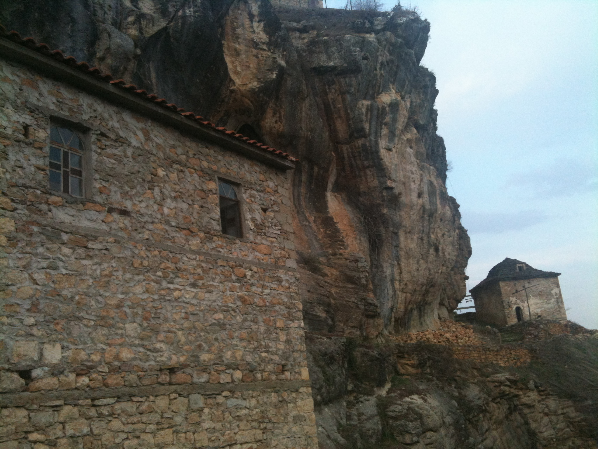 An eastern view of the ruined Tsoukas monastery, near the villaga of Agia Anna in Kastoria periphery, Western Macedonia, Greece